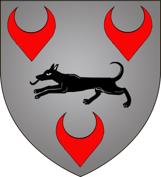 Coat of arms of the municipality of Feulen, Luxembourg